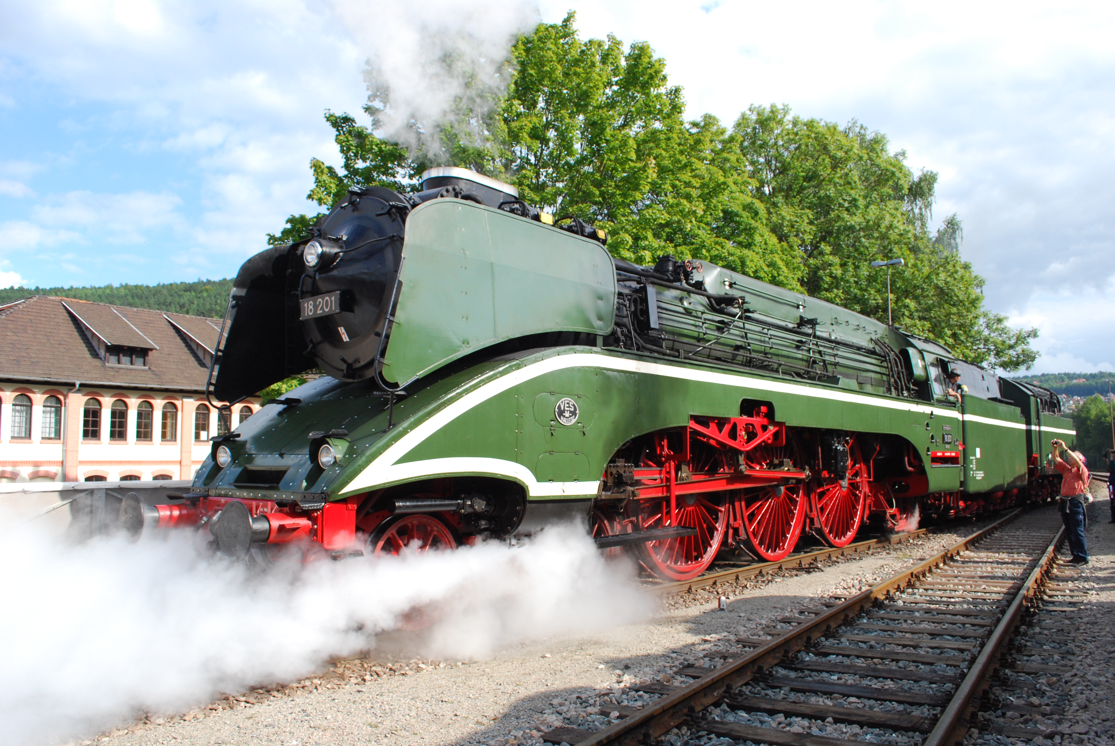 DR Class 18.2 4-6-2 No. 18 201. This is a DR rebuild dating from 1961 using the 7' 6.5" driving wheels, most of the frames and bogie from the experimental DRG Class 61 streamlined 4-6-6T, the outside cylinders, trailing truck and rear frames of the even more experimental DRG Class H45 2-10-2 turbine loco (the inside cylinder on 18 201 was new), the all welded boiler from a withdrawn DR rebuilt Class 22 (ex-Prussian P10) 2-8-2 (but fitted with a giesl oblong ejector) and a 2'2'T34 tender from a DRG Class 44 2-10-0, the entire ensemble being semi-streamlined. It was designed for 110 mph running and reached 113 mph in 1972. In 2011 it reached 100 mph! At the Meiningen Steam Festival, 08/12.